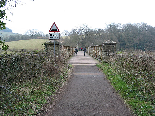 Footbridge over the Wye at Tintern A former railway bridge now taking walkers towards Brockweir, Offa's Dye Path, Devil's Pulpit and the car park at Tidenham.